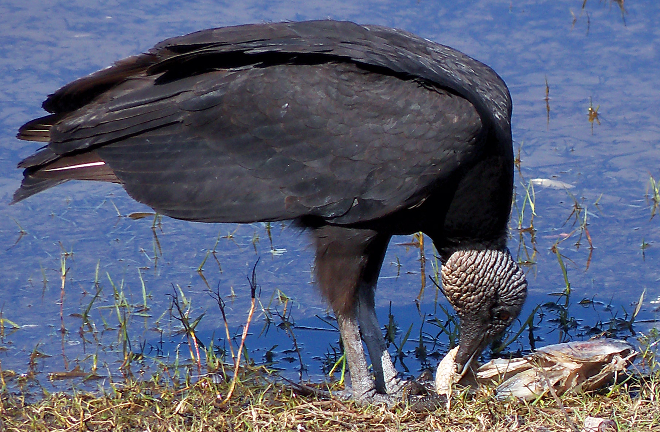 Black Vulture (also known as the American Black Vulture) eating a fish in Florida, USA.